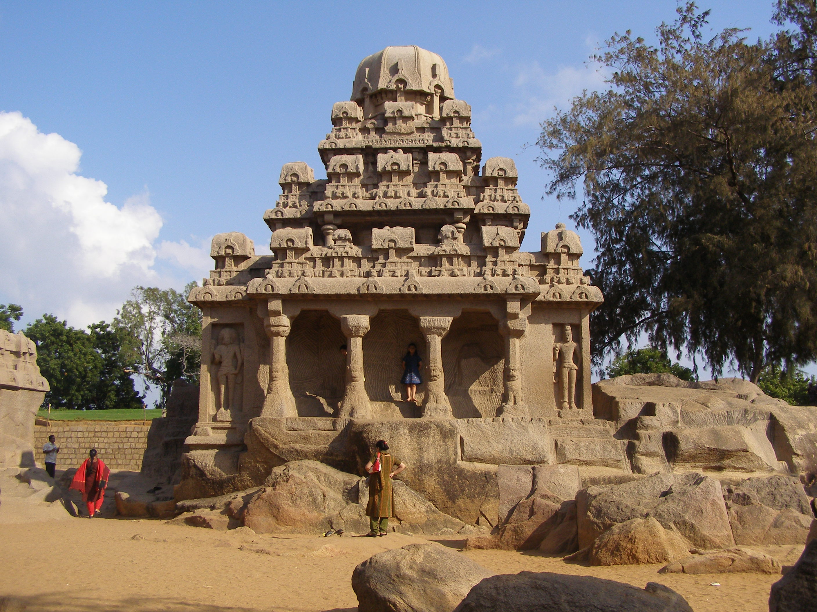 Yudhishtir's Ratha